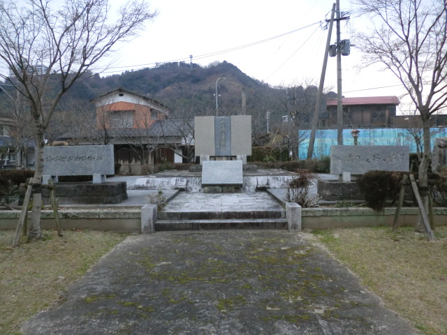 Monument of Umegatani Tōtarō I (yokozuna) in Harazuru hot spring,Asakura city,Fukuoka.